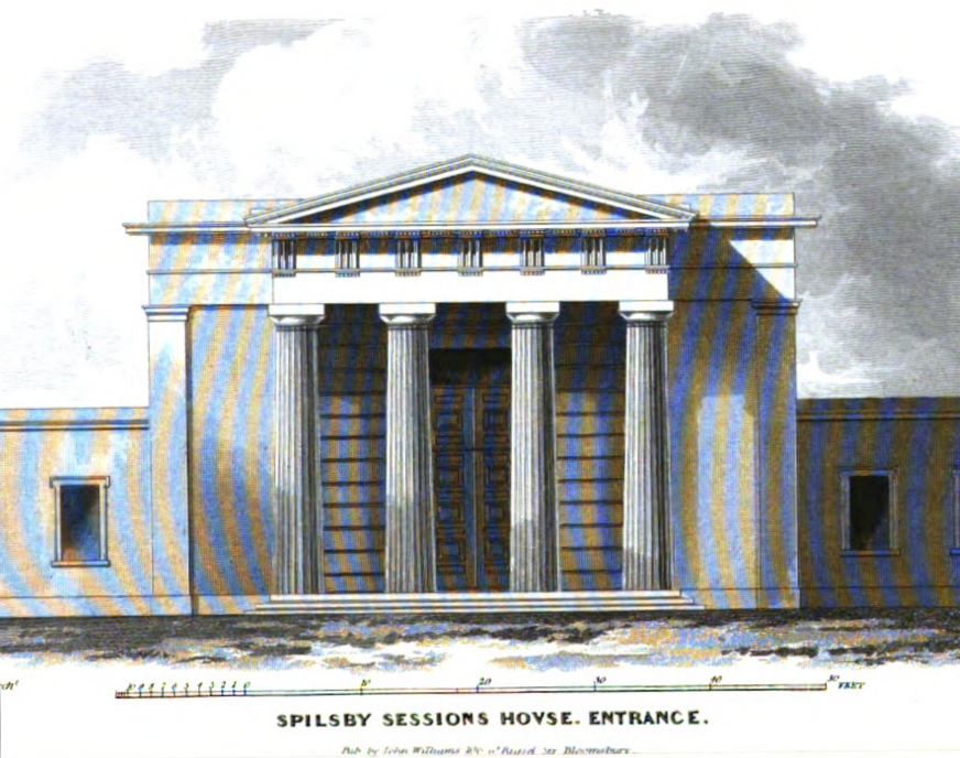 Portico frontage to Spilsby Sessions House